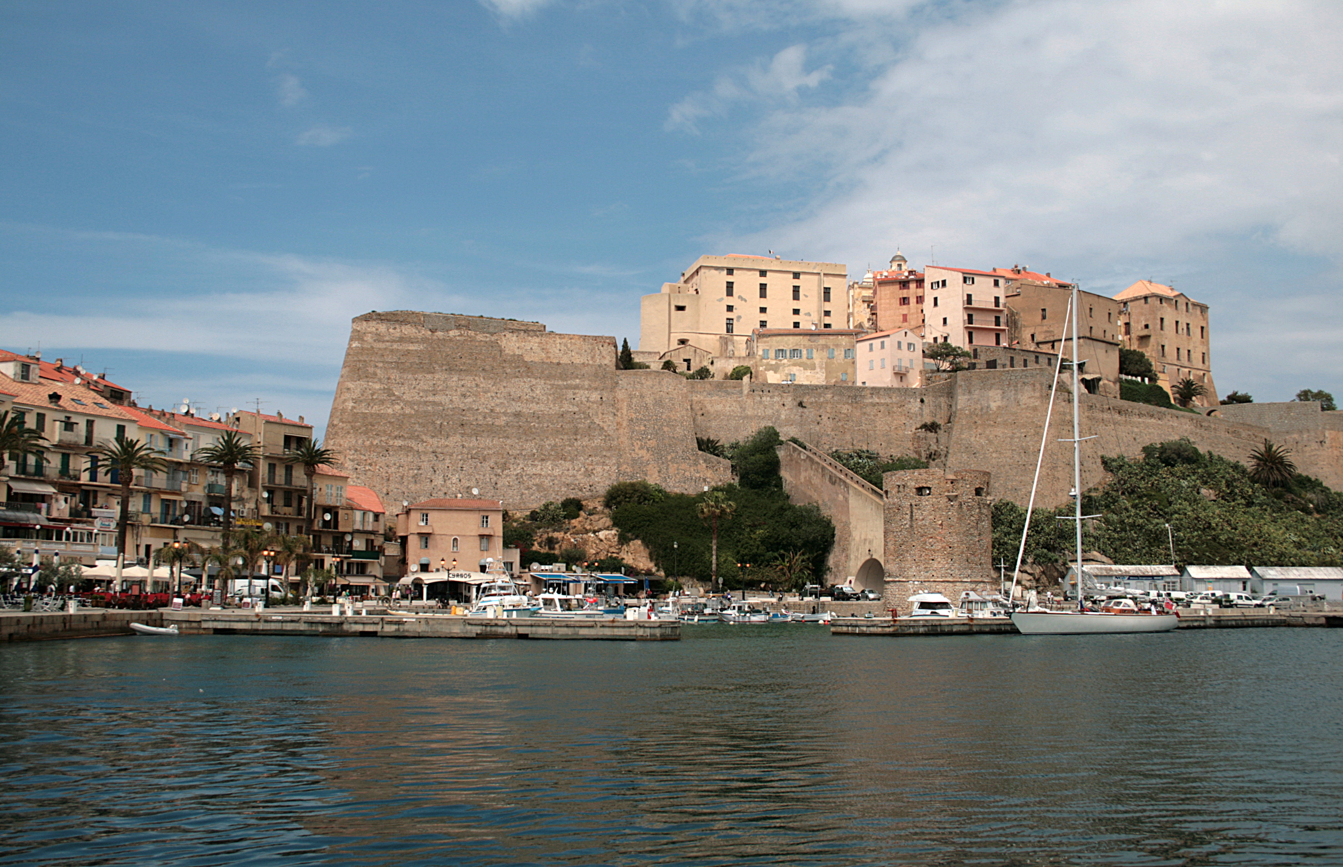 Calvi ( Haute-Corse) - France, port and citadel. Walon: Calvi (Côte-Corse) - France, li pôrt èt l’citadèle.